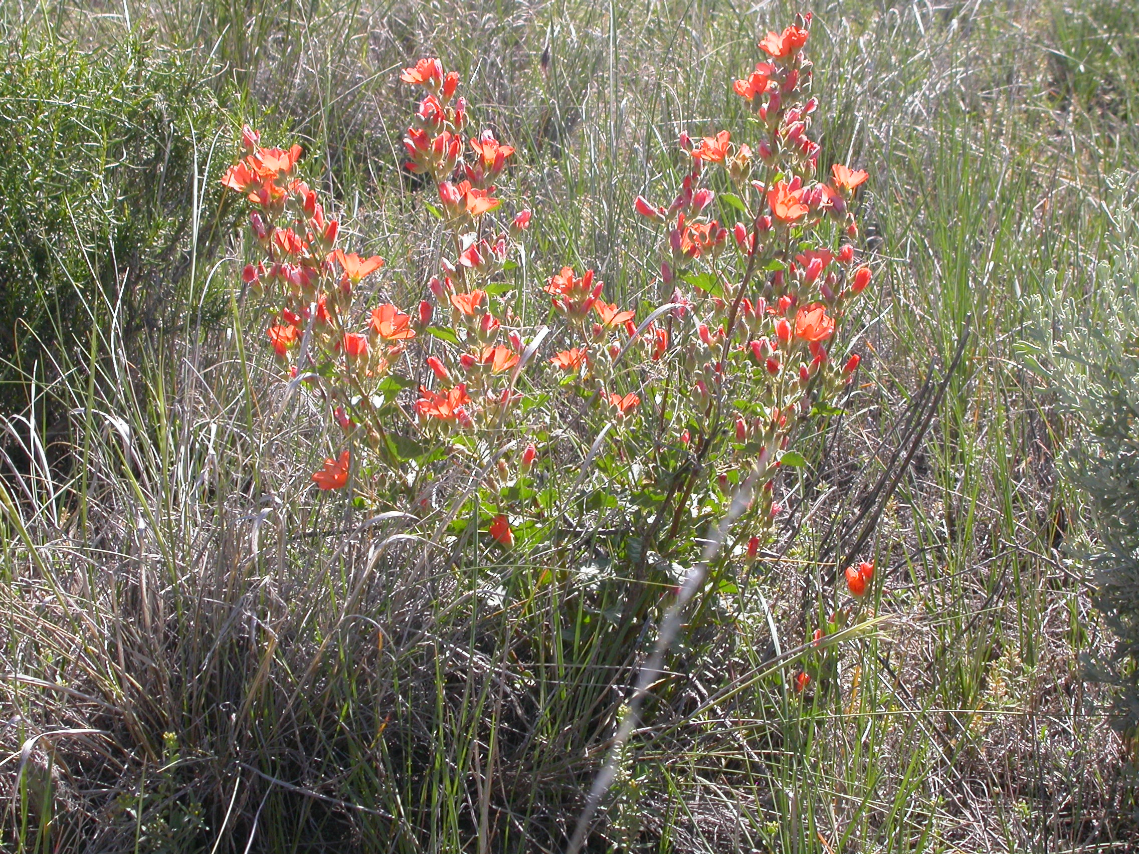 This is a common forb in the sagebrush steppe in this area.